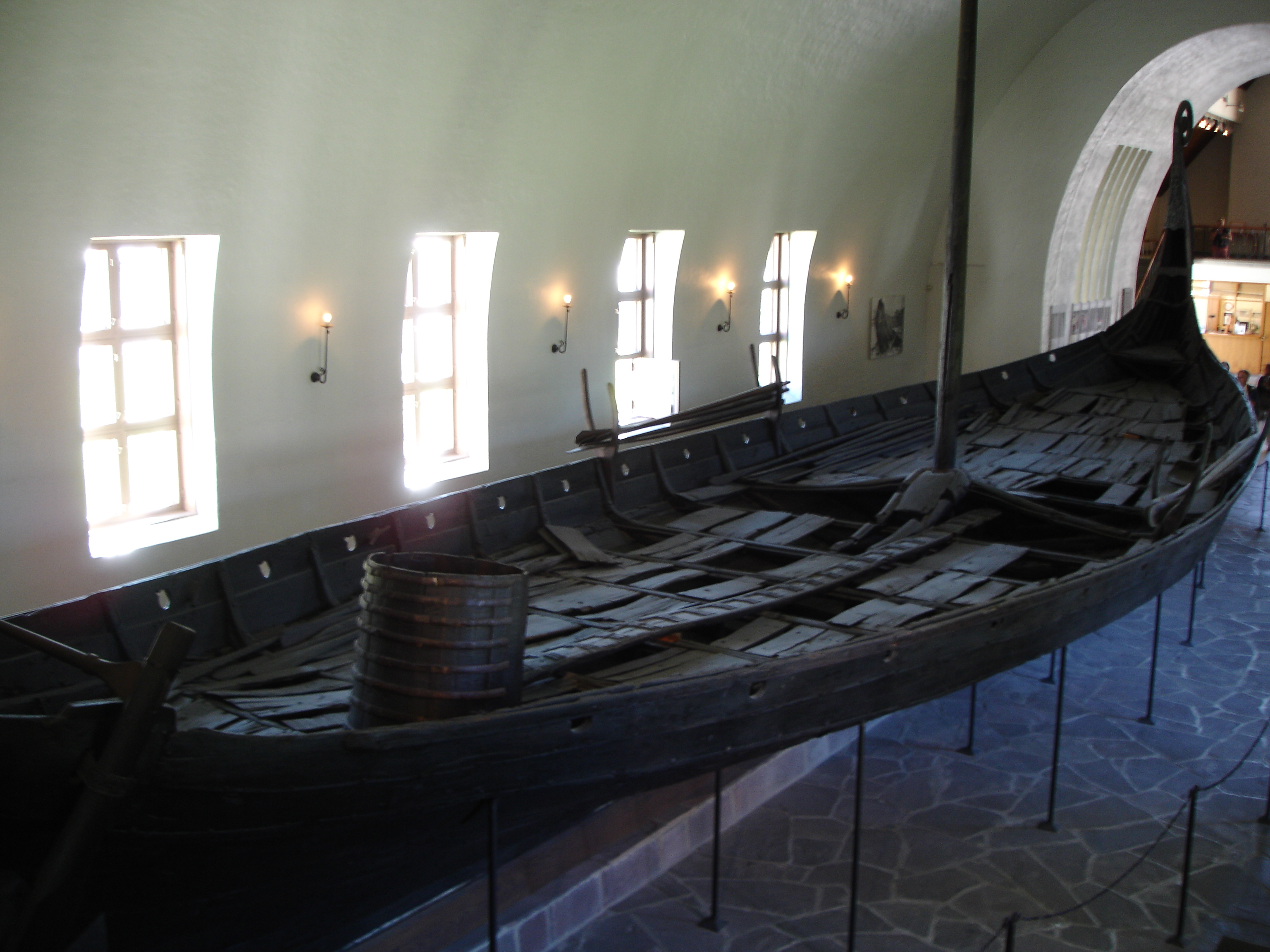 In the Vikingskiphuset there are three Viking burial vessels, the “Gokstad,” “Tune” and “Oseberg.” These date from 800AD to 900AD and were found near the Oslo Fjord some time during the 19th century. The Oseberg is a 64-foot long vessel with a dragon-shaped keel that contained royal remains. An outstanding collection of objects used on the boats is also on display. These objects were believed to ensure a happy afterlife to those who died. See set comments for “Oslo Norway Overview & History”. Also see Oseberg on .